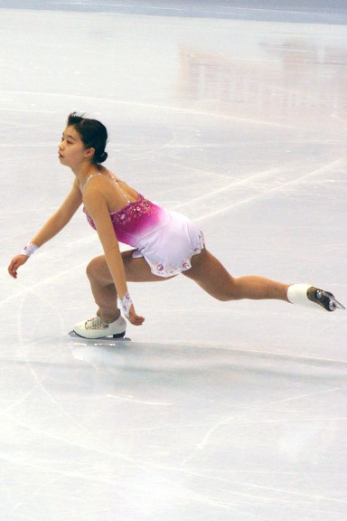 Mira Leung sets up for an axel at the 2006 Skate America.